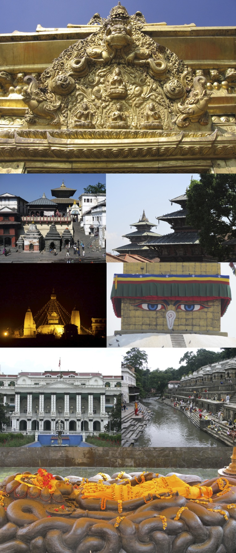 This is a collage of various places of Kathmandu generated from images taken from wikimedia commons. Clockwise from top: Torans seen in portals around Kathmandu, Degutaleju with Taleju in background at Kathmandu Durbar Square, Boudhanath Stupa|, Bagmati river, Budhanilkantha, Singha Durbar, Swayambhunath temple at night, Pashupatinath temple